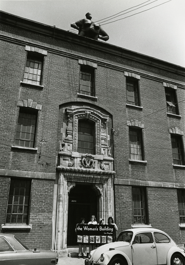 This is a photograph of the Los Angeles Woman's Building circa 1978. The photographer is unknown, but I am the archivist in charge and grant permission. Attribution should be to "the Woman's Building Archive."